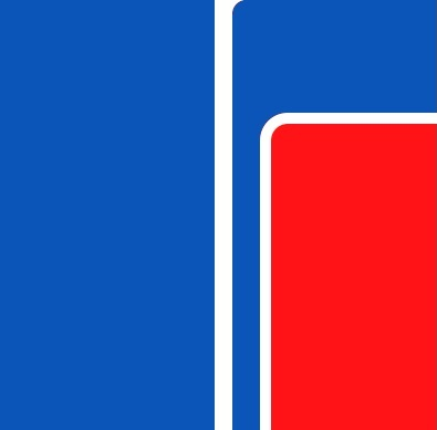 Rocad Construction Company Limited Logo